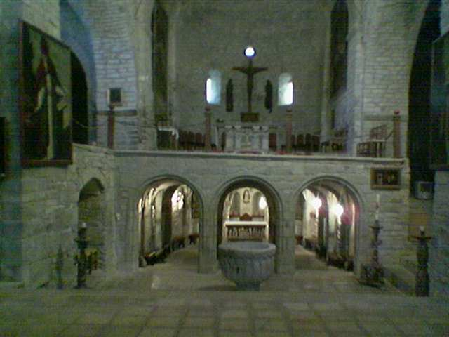 Uncovered crypt of the San Vicente Cathedral, in Roda de Isábena, Huesca, Spain.